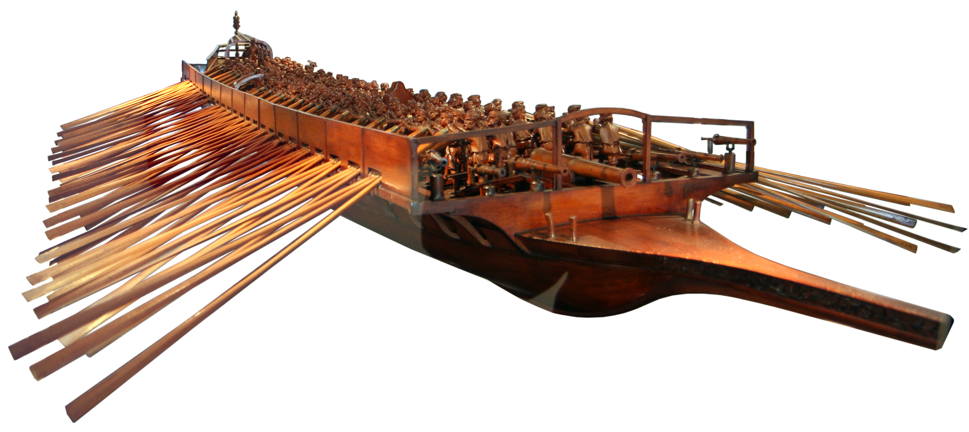 Galley, Venice, with rowers in the alla sensile (one man per oar) style. Wooden model, Museo Storico Navale, Venice